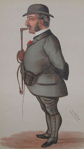 Caricature of Leopold de Rothschild (1845-1917). Caption read "Racing and Sporting".